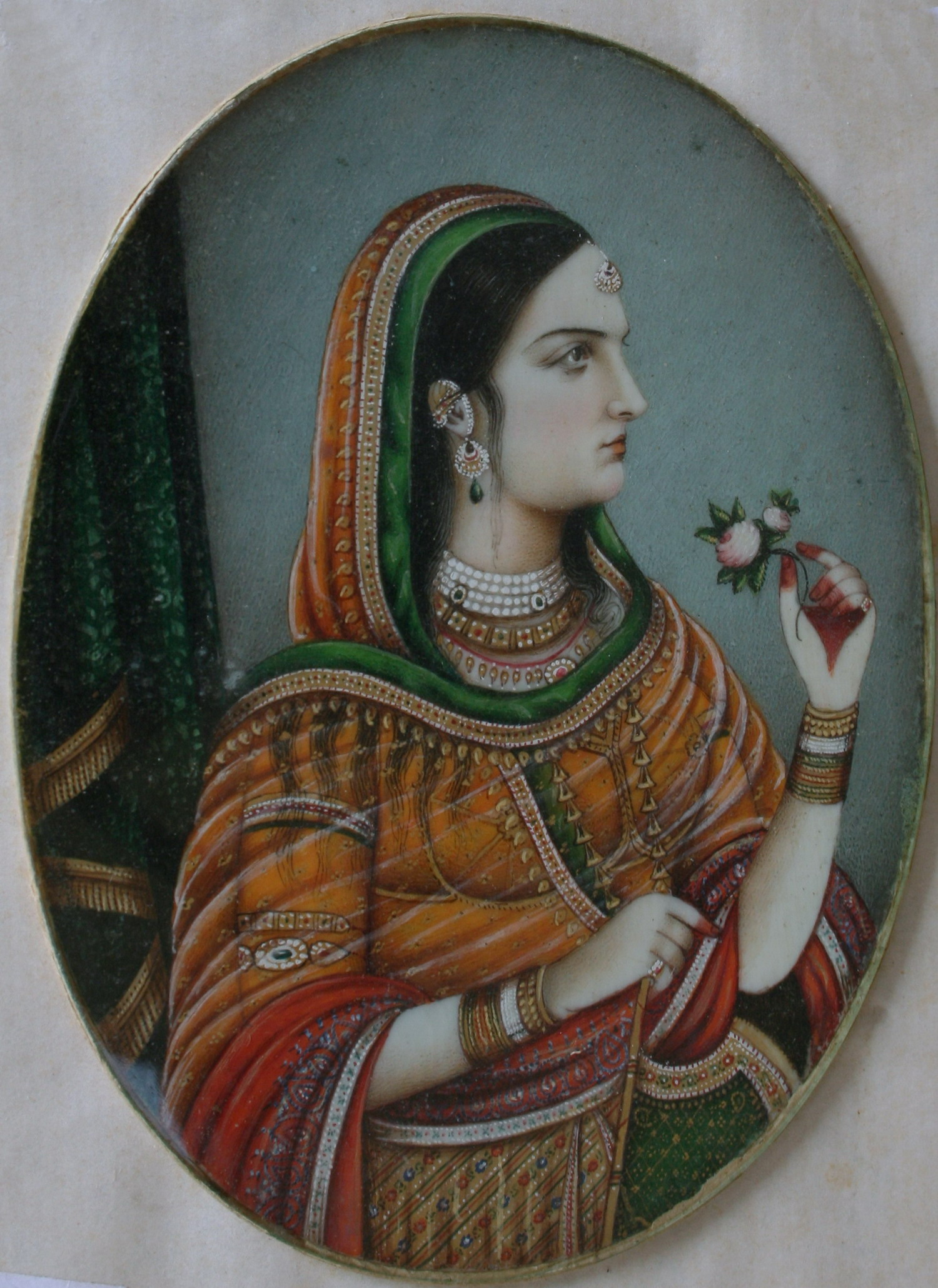 Portrait of Nur Jahan, wife of Mughal Emperor Jahangir.* Anglo-Indian or "Company School" at Delhi. Gouache and gold on ivory. With original bevel-edged glass cover.